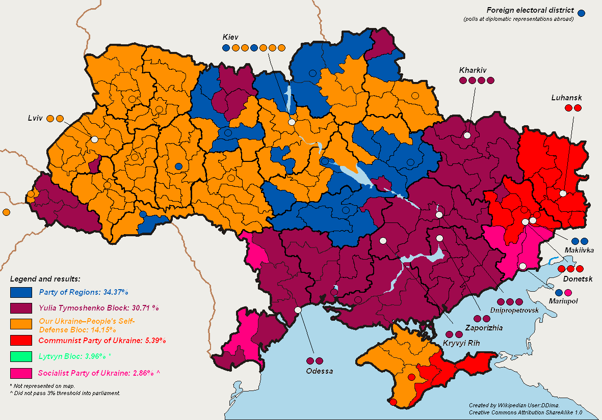 Second-place results of the Ukrainian parliamentary election, 2007. Compare with first place results. Legend: Party of Regions Yulia Tymoshenko Bloc Our Ukraine–People's Self-Defense Bloc Socialist Party of Ukraine (did not pass 3% threshold) Communist Party of Ukraine Lytvyn Bloc